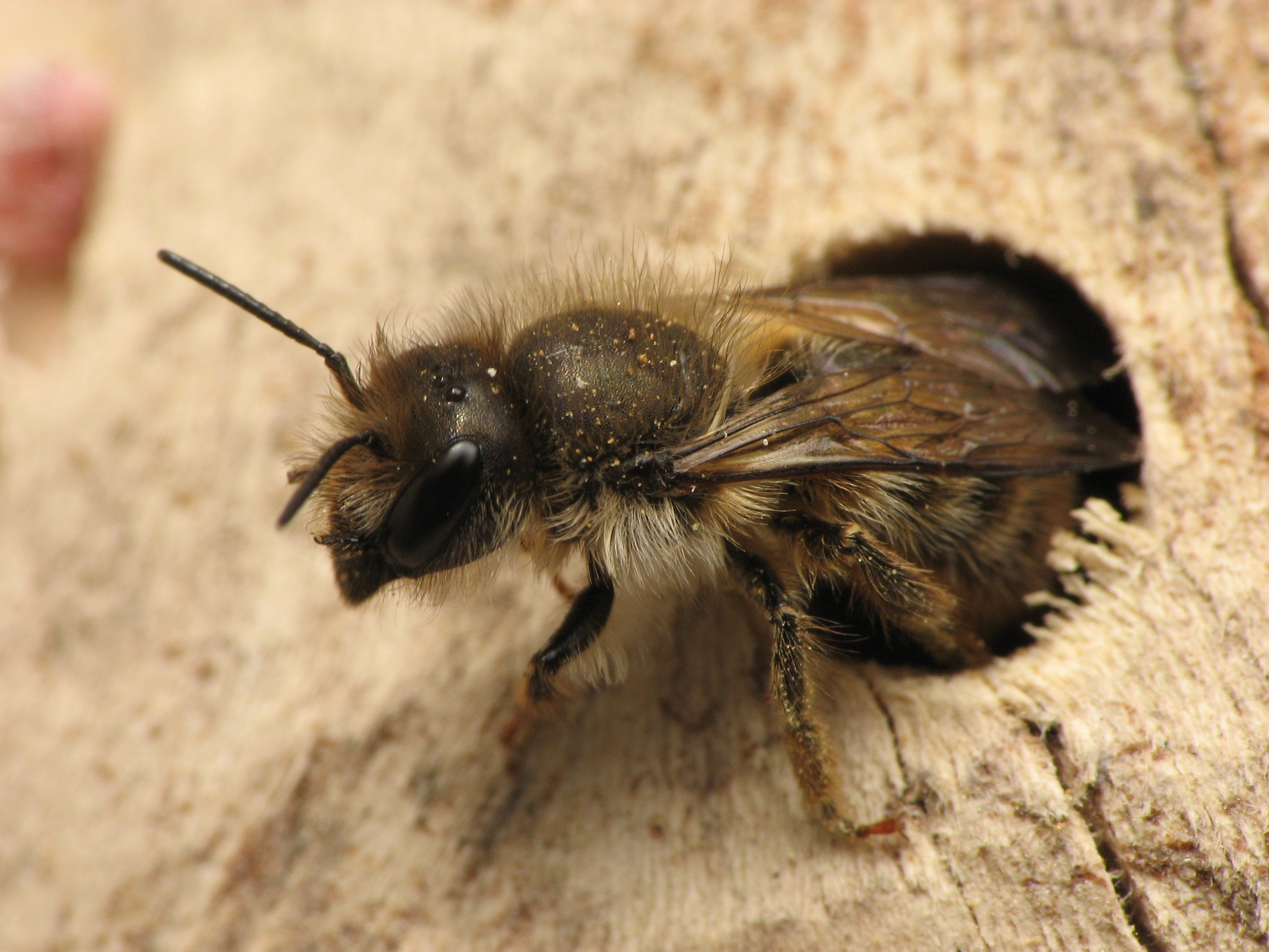 Osmia cornifrons at nest's entrance. Willow Grove, Montgomery County, Pennsylvania, USA.